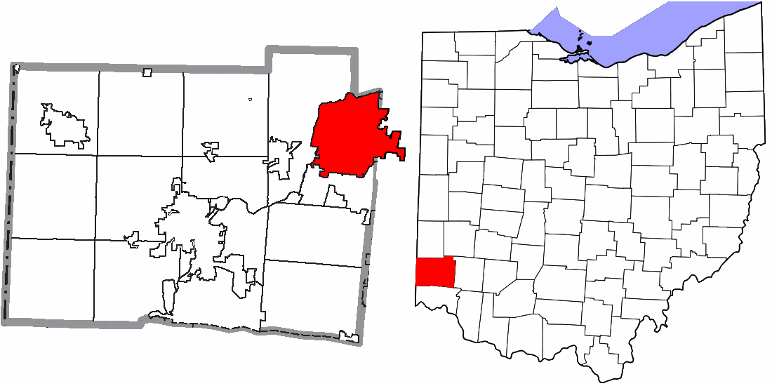 Map highlighting City of Middletown, Butler and Warran Counties, Ohio, United States.